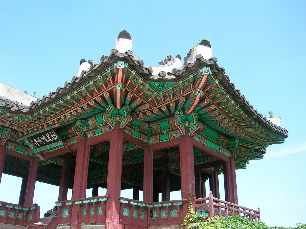 This photo has been taken by Marcopolis (talk) 02:41, 27 February 2008 (UTC), in July 2007 with a digital camera. The photo shows a part of Suwon Hwaseong, located in Suwon, South Korea; 2013-04-28 seems to be dongbukgangnu